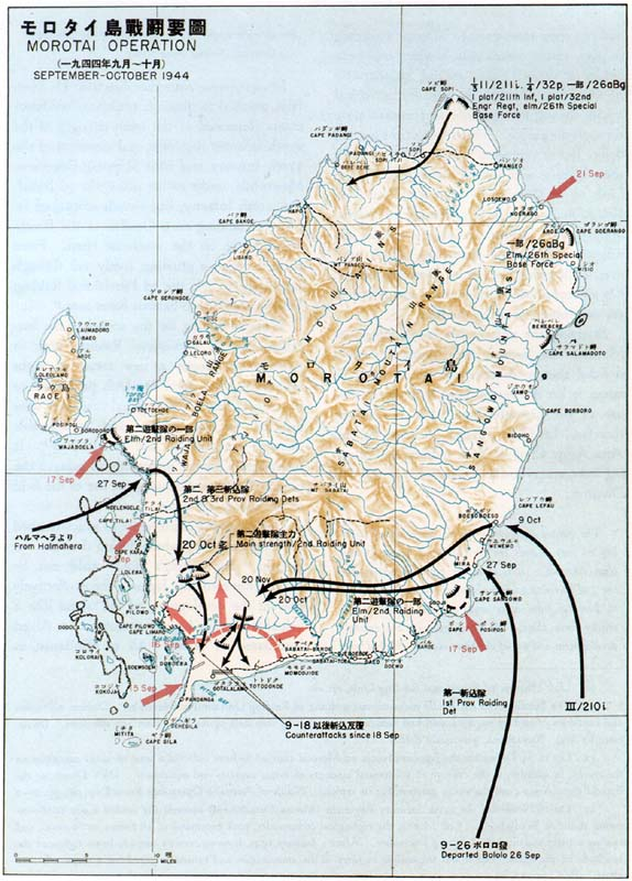 Map showing Allied and Japanese movements during the Battle of Morotai in 1944